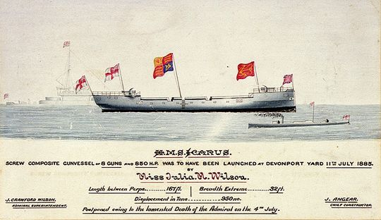 HMS Icarus screw composite gun vessel of 8 guns and 850 H.P. was to have been launched at Devonport Yard 11th July 1885. By Miss Julia. M.Wilson. Length between perps...167ft. Breadth extreme...32ft. Displacement in tons...950no. Postponed owing to the lamented Death of the Admiral on the 4th July. J Crawford Wilson. Admiral Superintendent J.Anger. Chief Constructor Medium includes pen and ink.